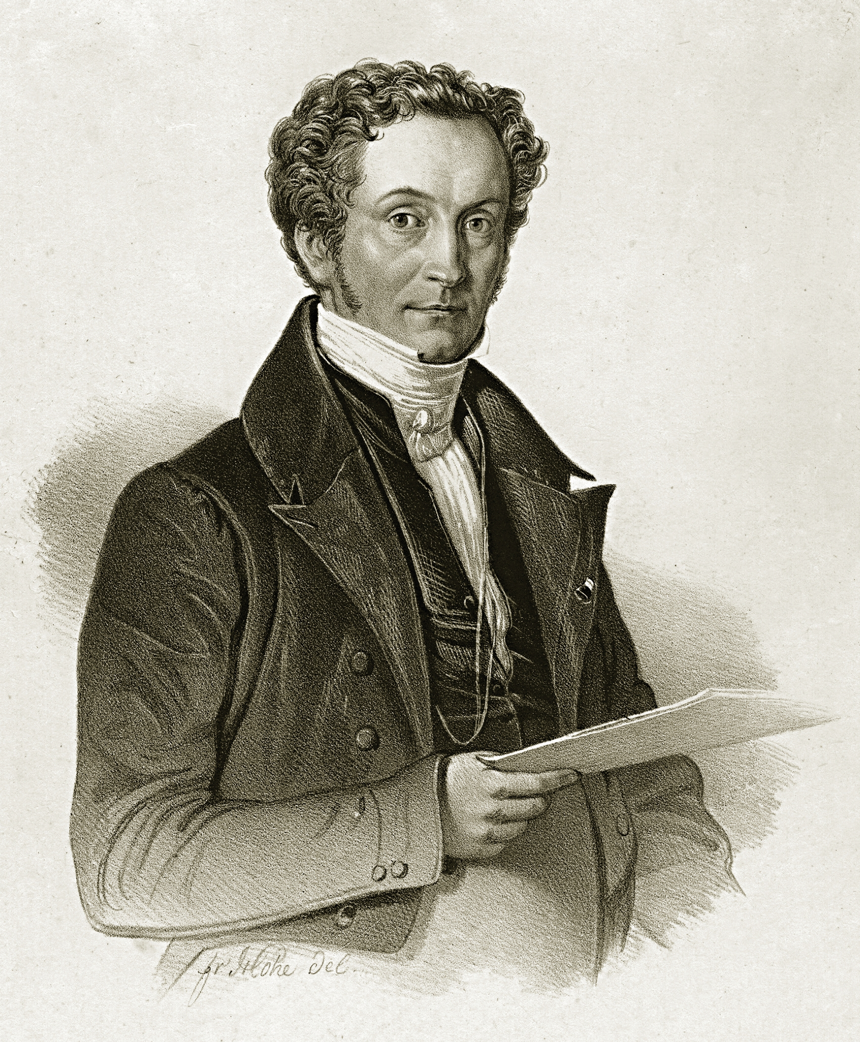 Bavarian scholar and public servant and greek Prime Minister Ignaz von Rudhart (1790-1838)